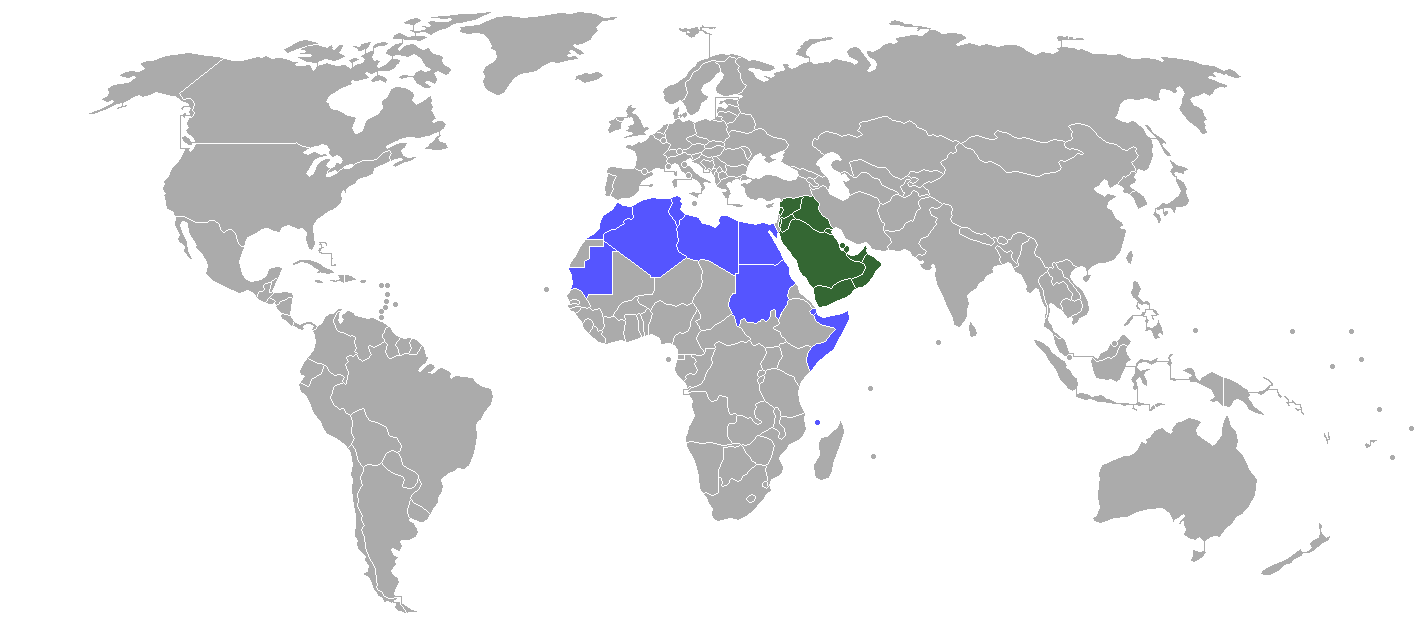 Members of Union of Arab Football Associations. Members from the Asian Football Confederation Members from the Confederation of African Football Not an associate member of UAFA